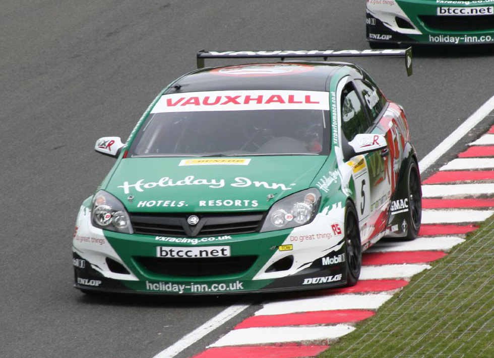 Tom Chilton driving Vauxhall Astra at Oulton Park (2006).